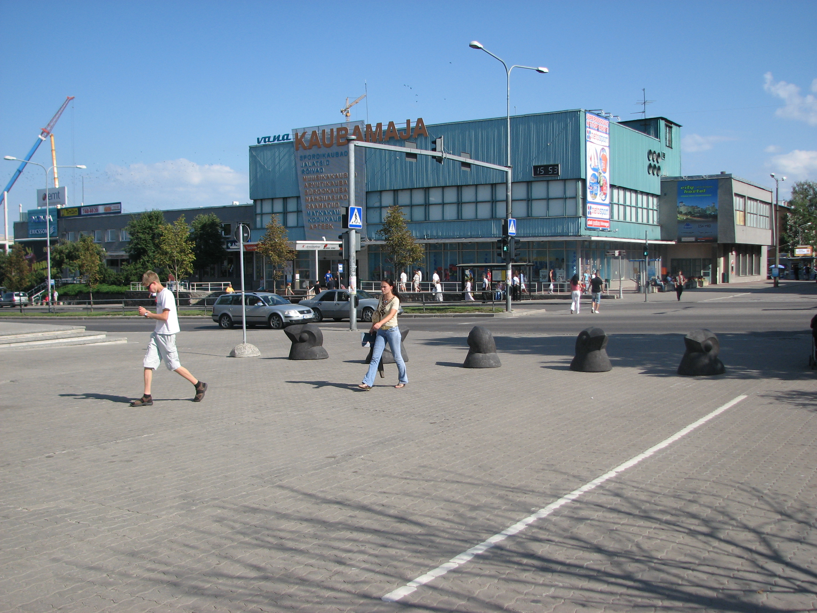 Old department store of Tartu, Estonia